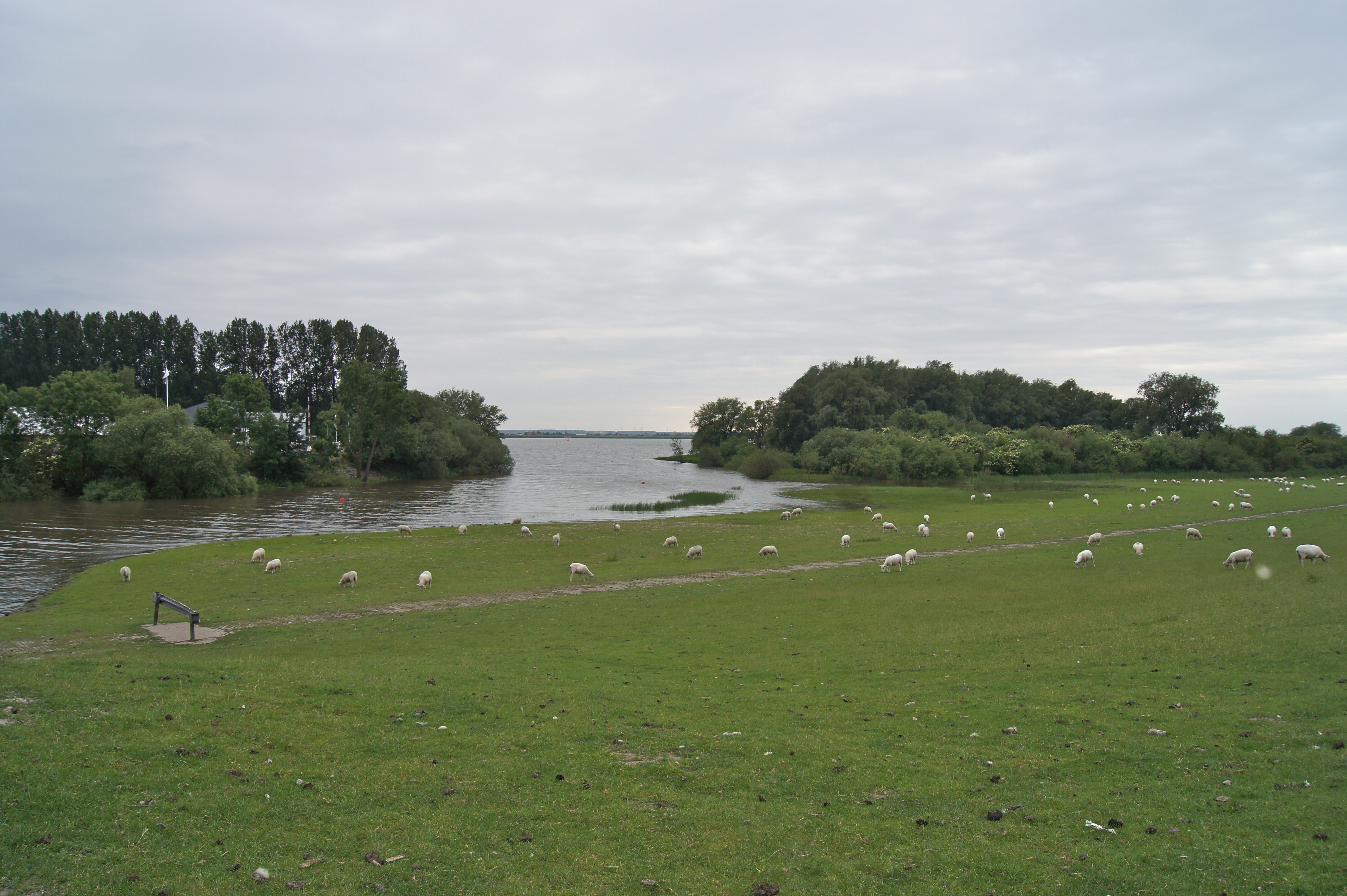 Wedel, Germany: Tidal Creek of the Wedeler Au outside the main damm at high tide